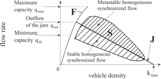 Three traffic phases on the flow-density plane in Kerner’s three-phase traffic theory